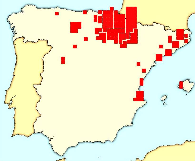 Carlist deputies elected to Cortes Generales (lower house) during the Restauration period (1879-1923). Each little square represents one deputy. Each polygon represents one electoral district. source: Índice Histórico de Diputados available at